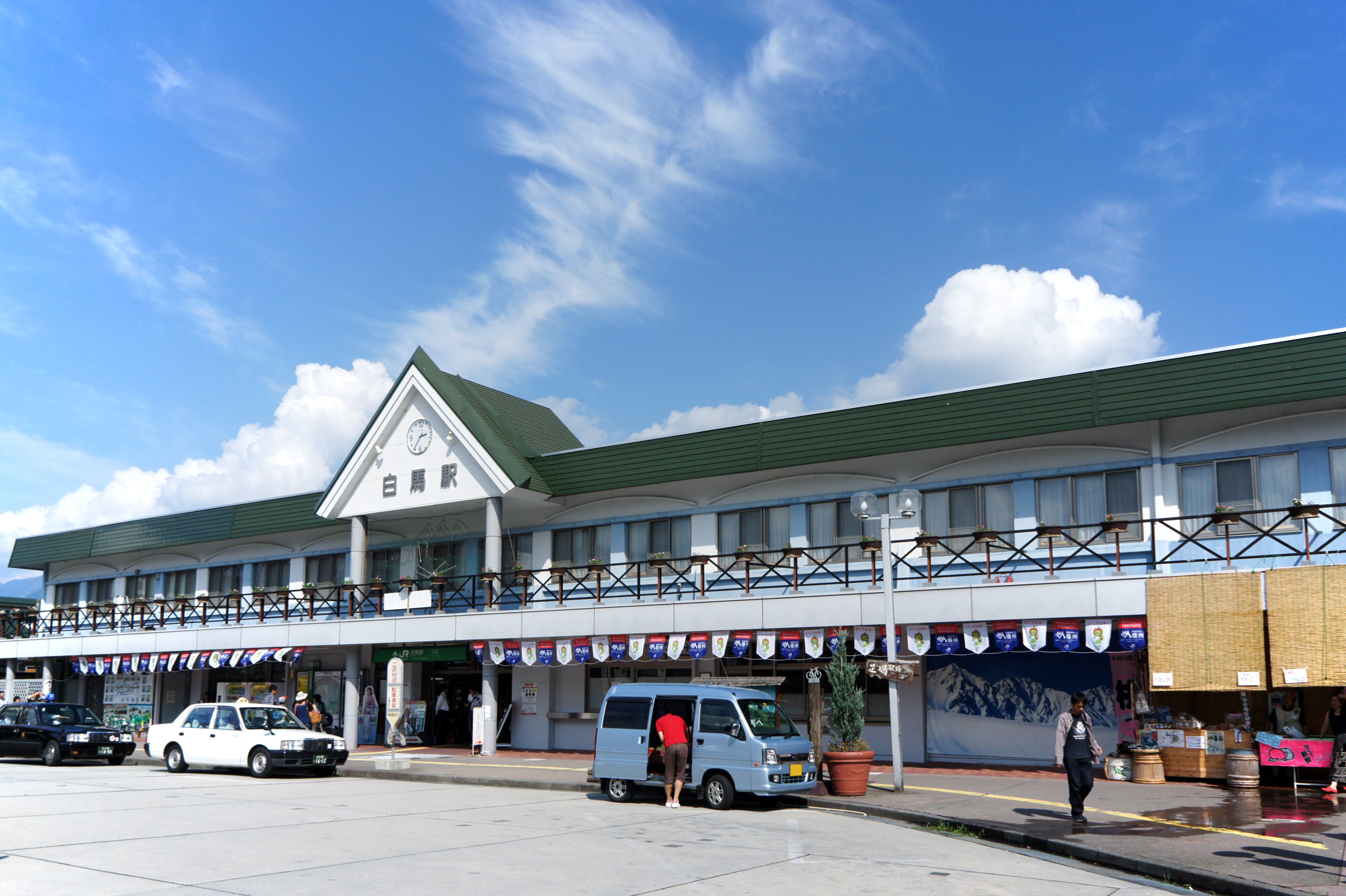 Hakuba Station in Hakuba, Nagano prefecture, Japan.